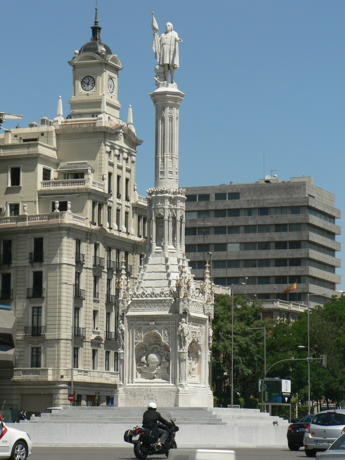 The Plaza de Colón (Columbus Square) on the west side facing the Paseo de la Castellana stands Christopher Columbus monument which was erected in 1885. Madrid, Spain.